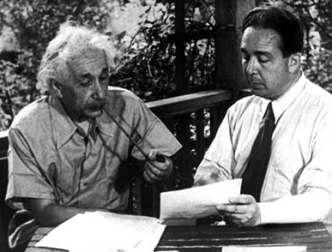 Einstein times how fast Leo Szilard takes to understand his theory of General Relativity.